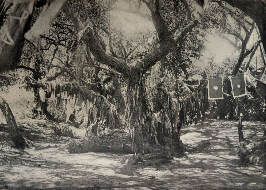 “A HOLY TREE OF GREAT AGE.The sacred trees are covered with shreds torn from the garments of those who visit them, by which they hope to establish a beneficient connection with the particular saints who visit and dwell in the branches. The author has also found these sacred trees in the deserts of Saharah, of Nubia and the Sudan.”A huge tree in forest draped with strips of cloth. Black-and-white photograph.